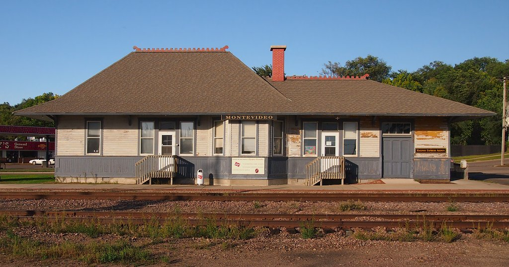 Chicago, Milwaukee and St. Paul Depot, Montevideo, Minnesota, USA. Viewed from the southwest.